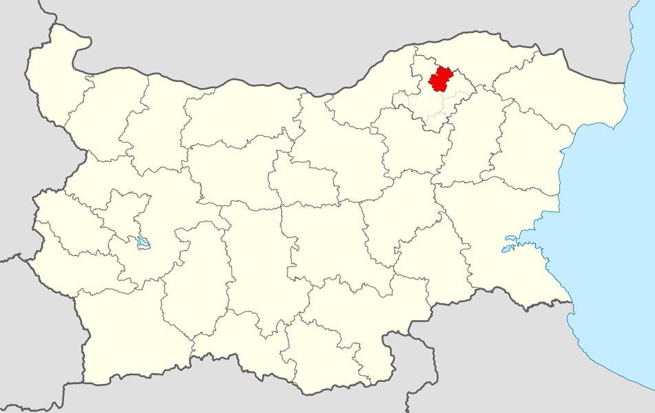 Location map of Zavet Municipality within Bulgaria and Razgrad Province. Equirectangular projection, N/S stretching 130 %. Geographic limits of the map: N: 44.4° N S: 41.1° N W: 22.1° E E: 28.9° E